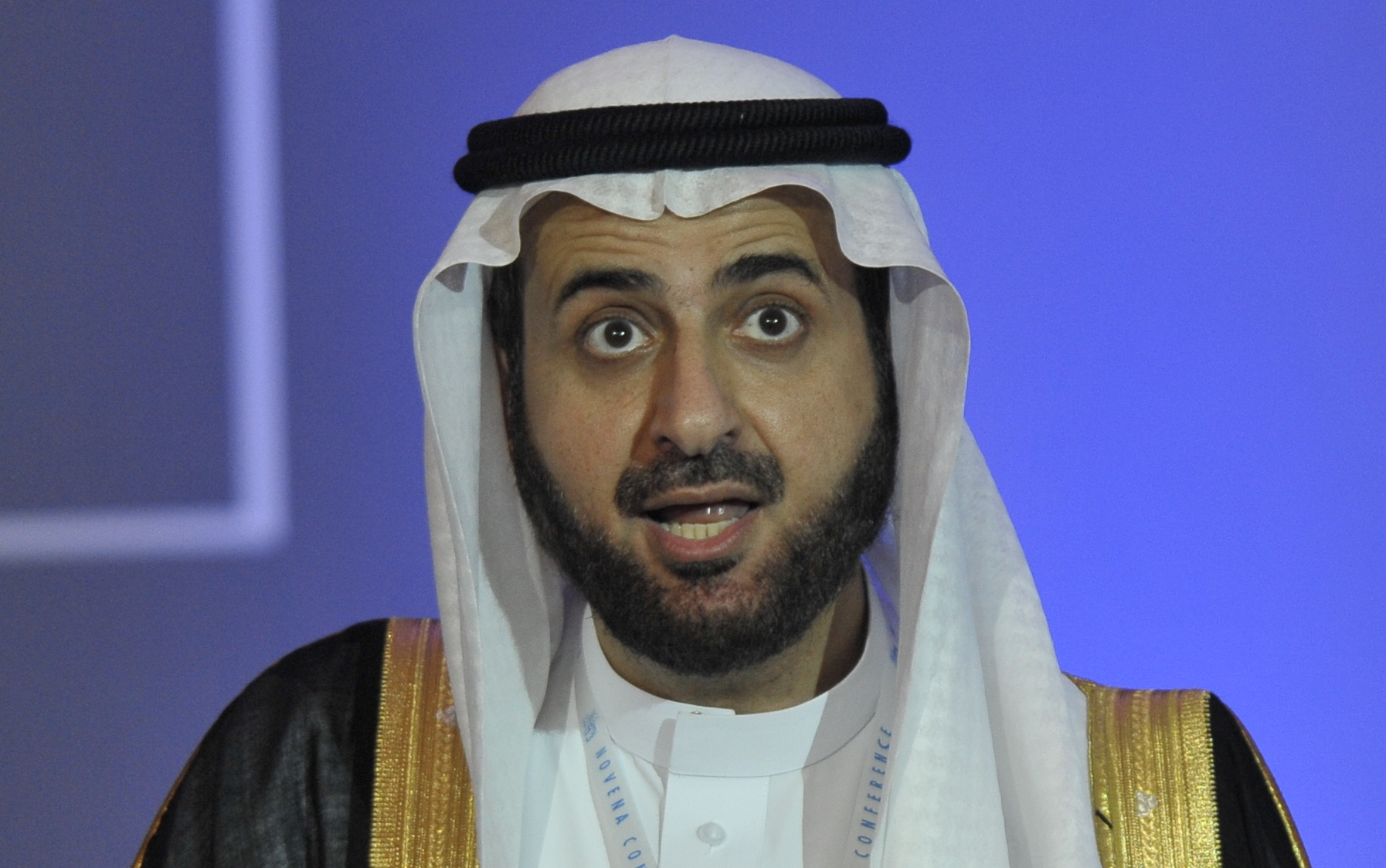 Tawfiq Al Rabiah - Day 2 of the WTO's Ministerial Conference, Bali, 3 December 2013.